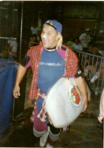 Ray Odyssey